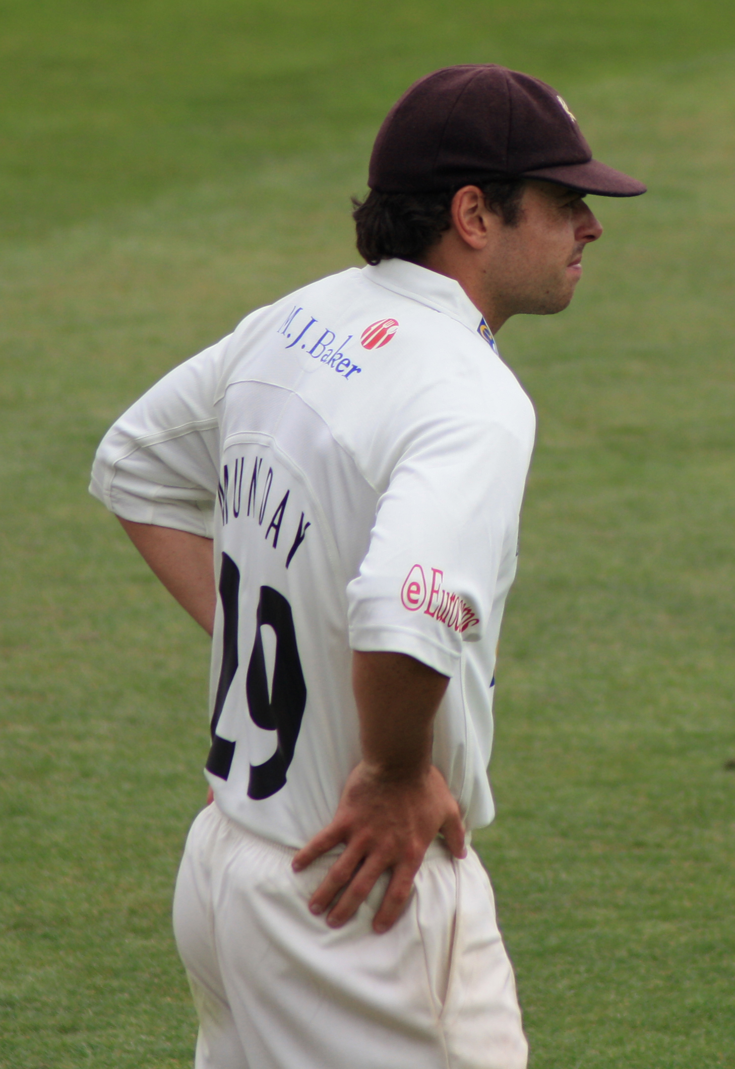 Michael Munday fielding for Somerset during day two of the County Championship match against Essex at the County Ground, Taunton.